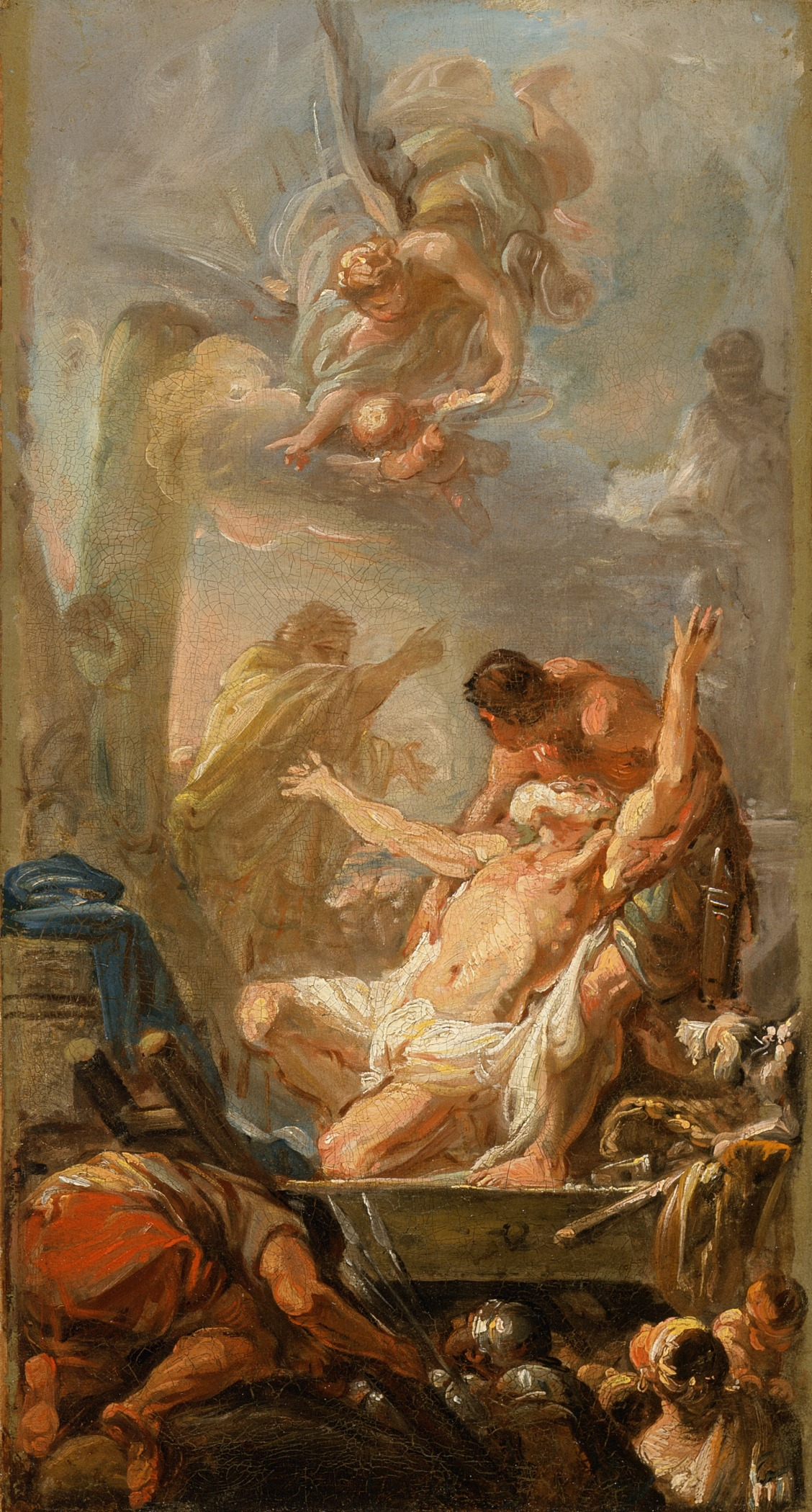 France, 1758 Paintings Oil on canvas 21 3/8 x 11 3/4 in. (54.30 x 29.85 cm) The Ciechanowiecki Collection, Gift of The Ahmanson Foundation (M.2000.179.19) European Painting Currently on public view: Ahmanson Building, floor 3